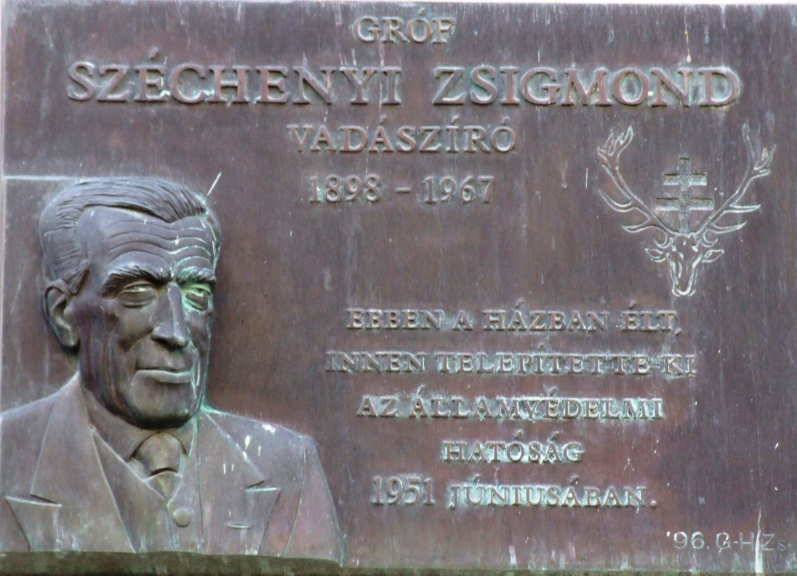 Commemorative plaque to Mr. Zsigmond Széchenyi (1898-1967) Hungarian hunter and writer. It is affixed to the front of the house where he lived until his police translocation in 1951. Author of the bronz relief was Mr. Zsolt Gulácsy-Horváth. (Budapest, District I, Úri Street Nr 52).